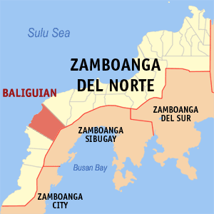 Map of the Zamboanga del Norte showing the location of Baliguian